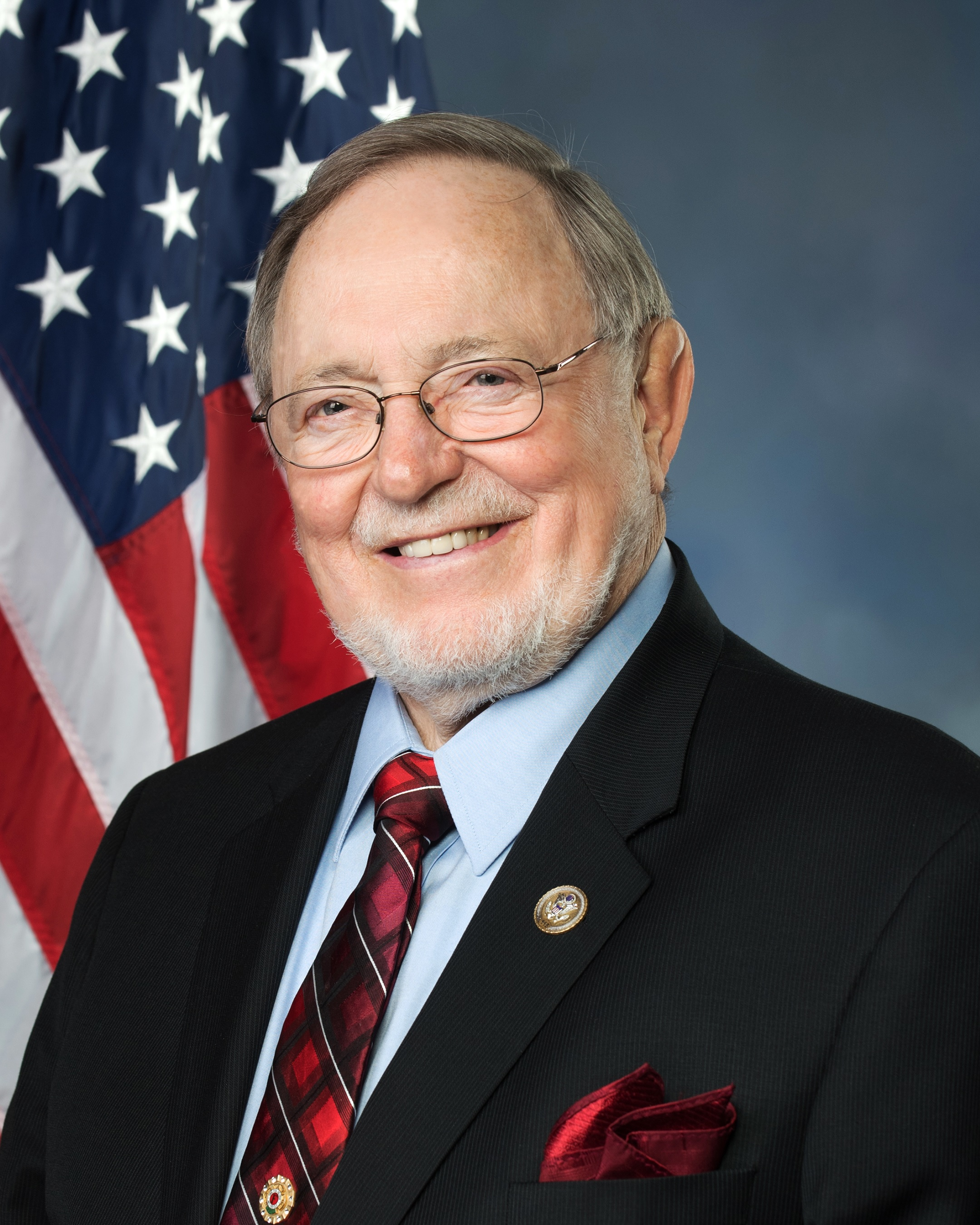 Don Young, member of the United States House of Representatives from Alaska since 1973.